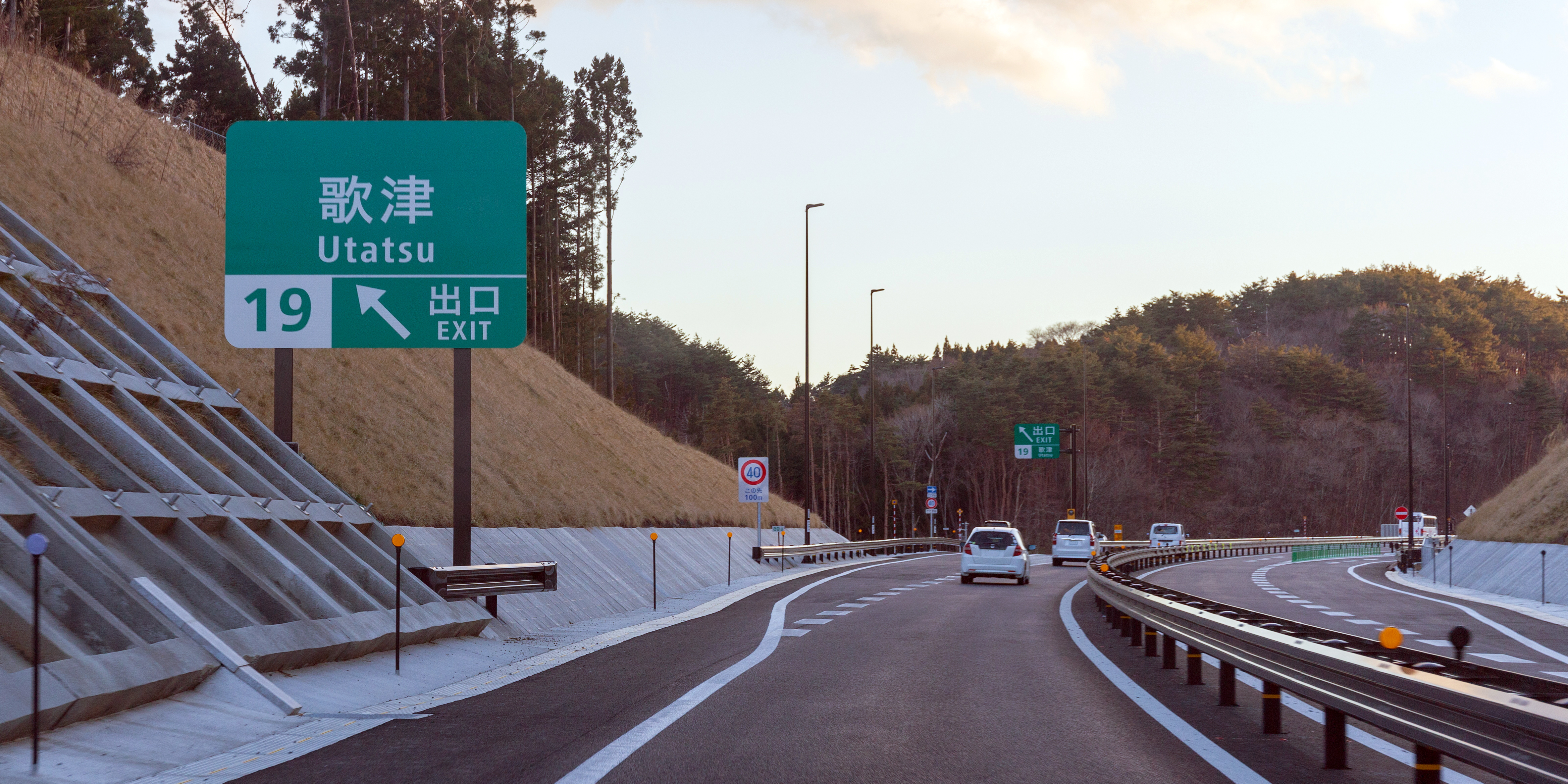 Utatsu Interchange on the Sanriku Expressway southbound line in Minamisanriku Town, Miyagi Prefecture, Japan